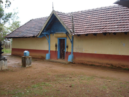 Image of temple